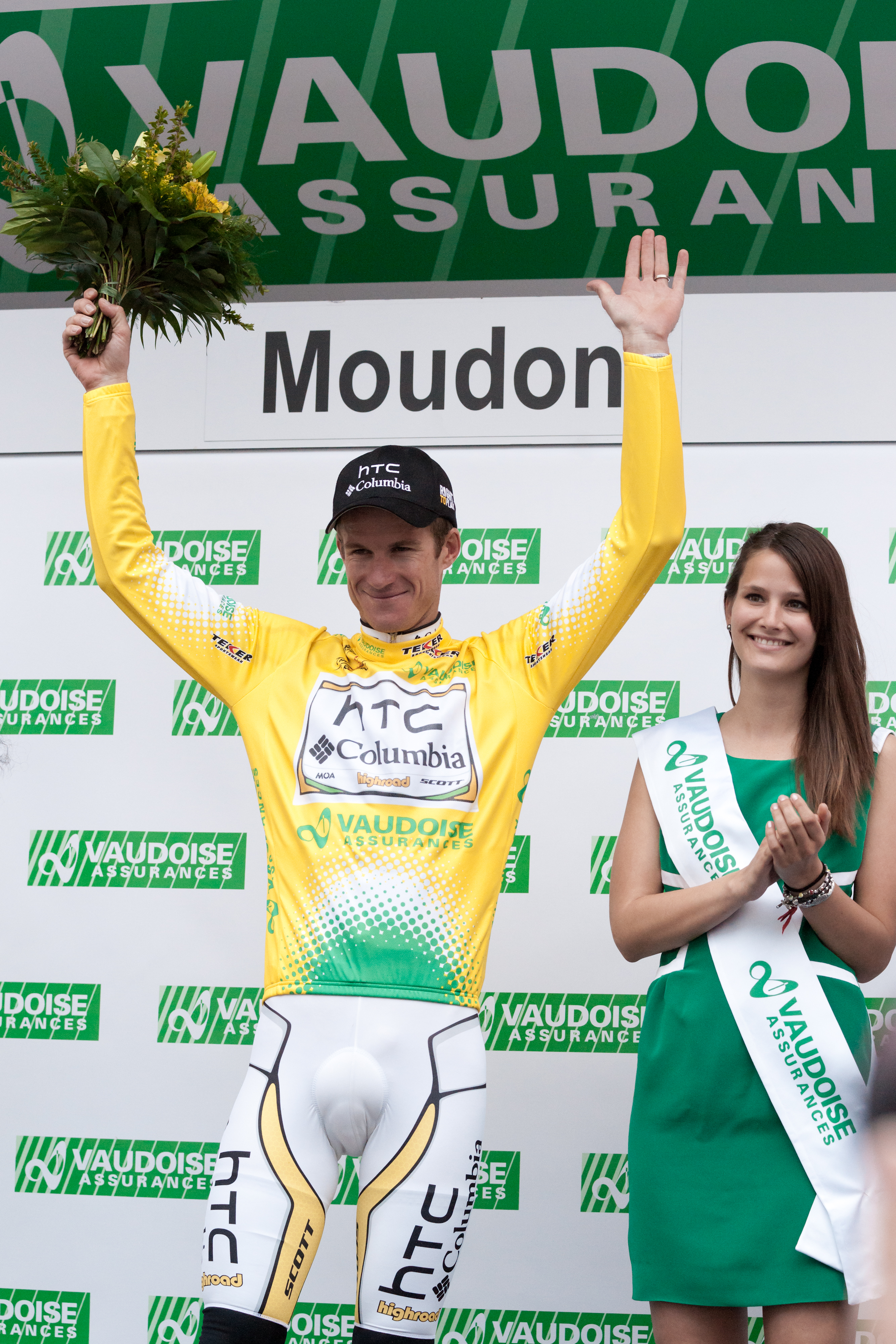 Michael Rogers on the podium of the 3rd stage of the Tour de Romandie 2010.